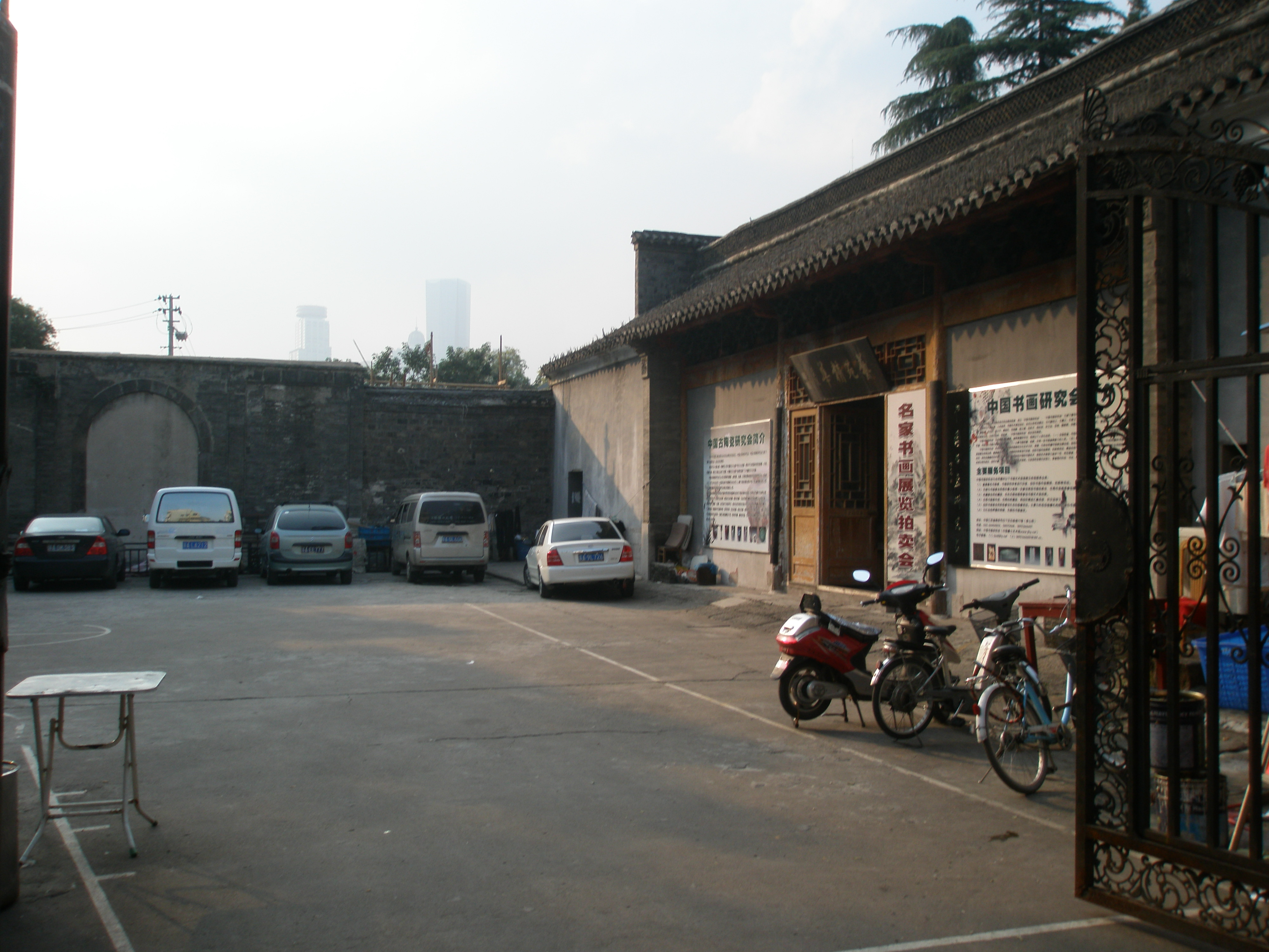 East side of Li Hongzhang ancestral hall,in nanjing,china